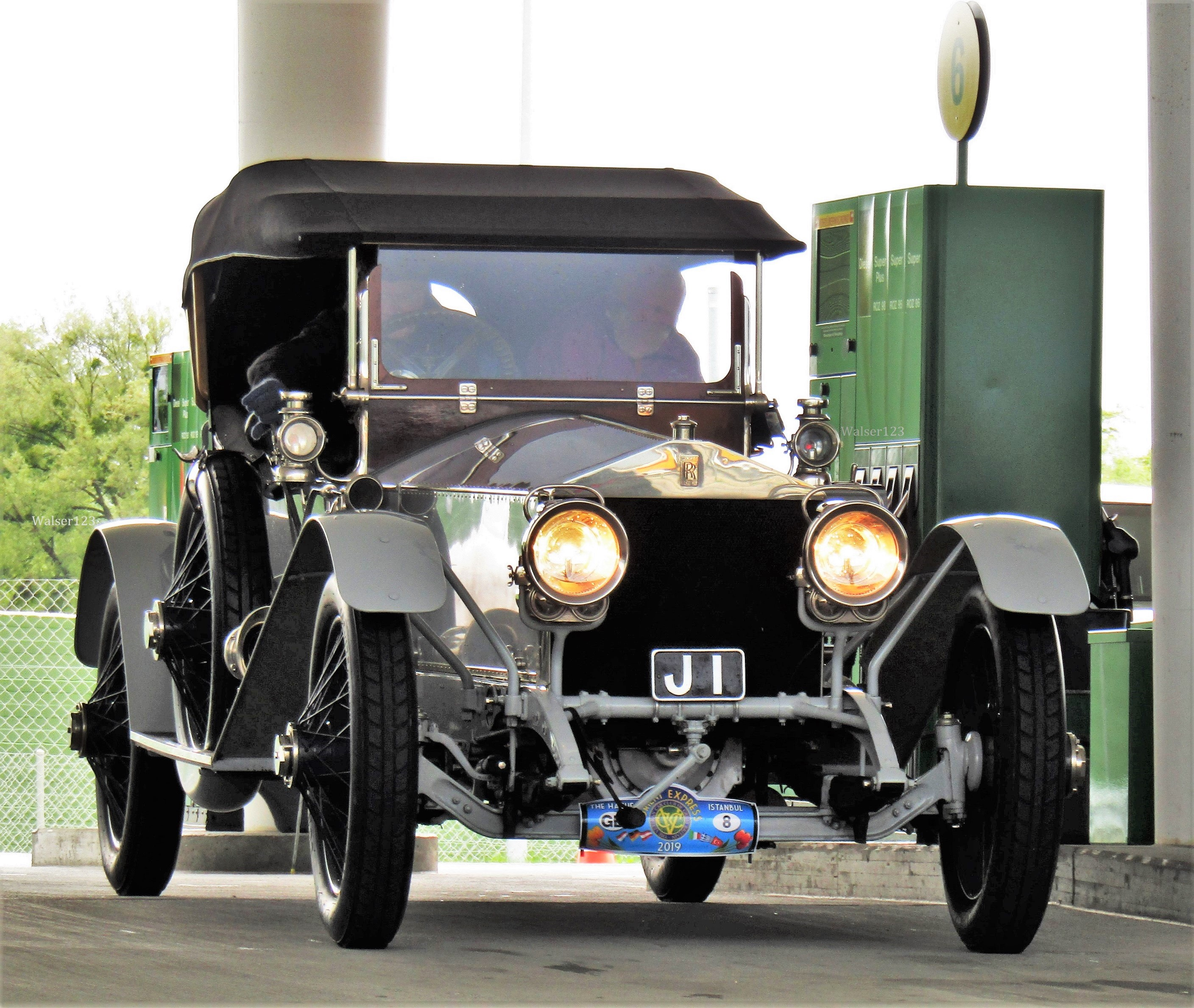 J 1, the first registration plate of Jersey, seen in Bregenz, Austria, May 2019